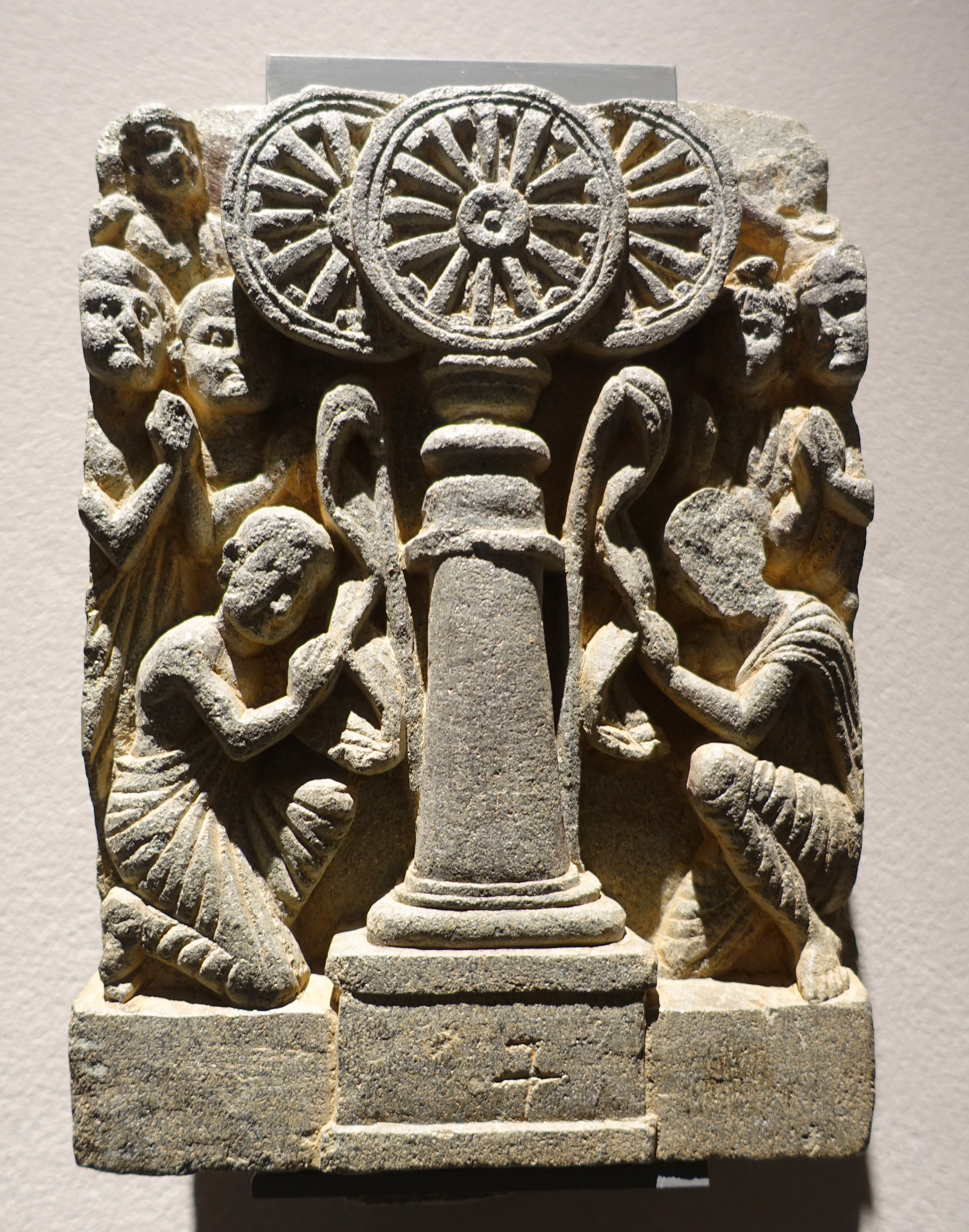 Exhibit in the Ethnological Museum, Berlin, Germany.